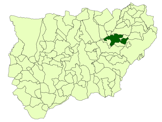 Situation of the municipality of Villanueva del Arzobispo (Jaén, Andalusia, Spain).